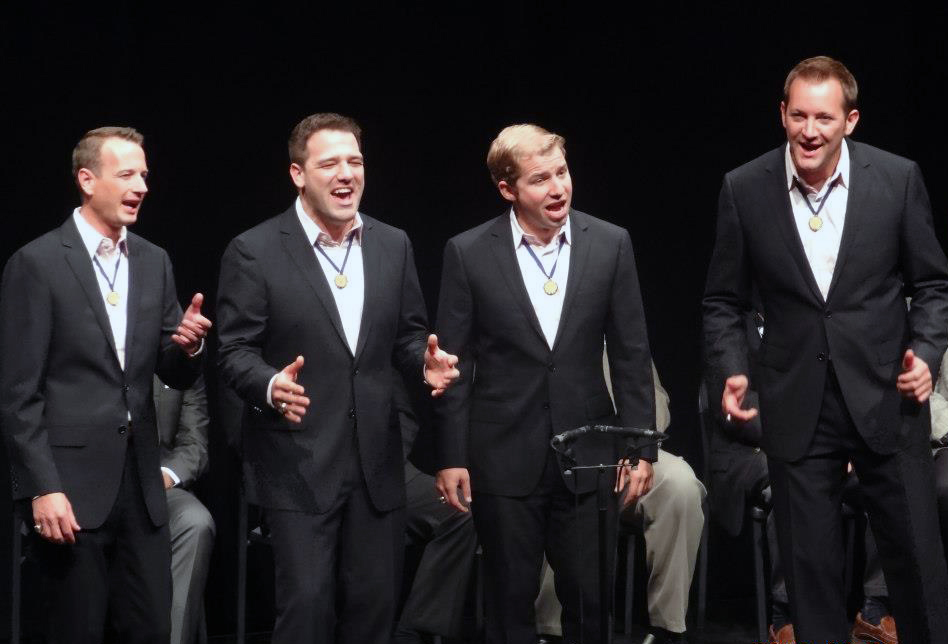 OC Times (barbershop quartet) performing at the Bruce Mason Centre in Auckland, New Zealand, on the 27th of September 2012. Cropped and minor contrast/tone fixes from original photograph.